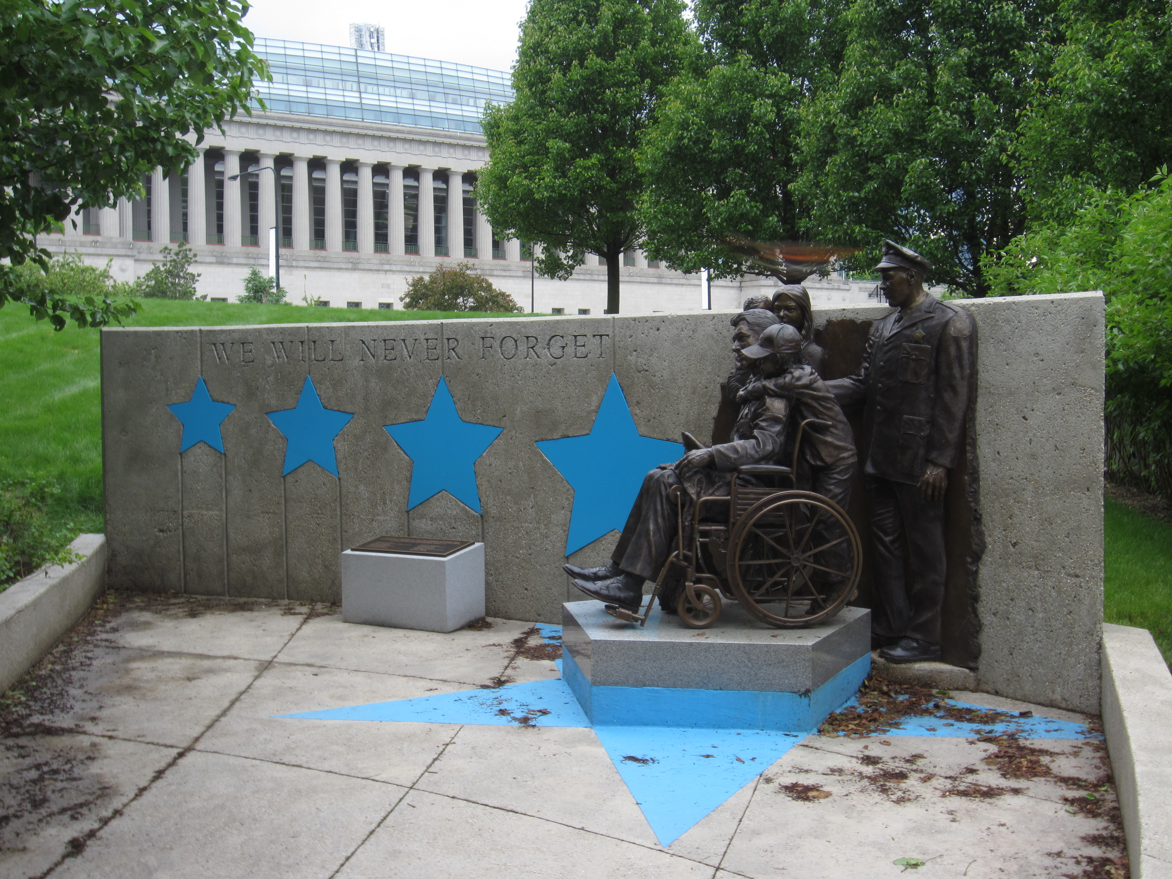 Chicago, Illinois, June 2015